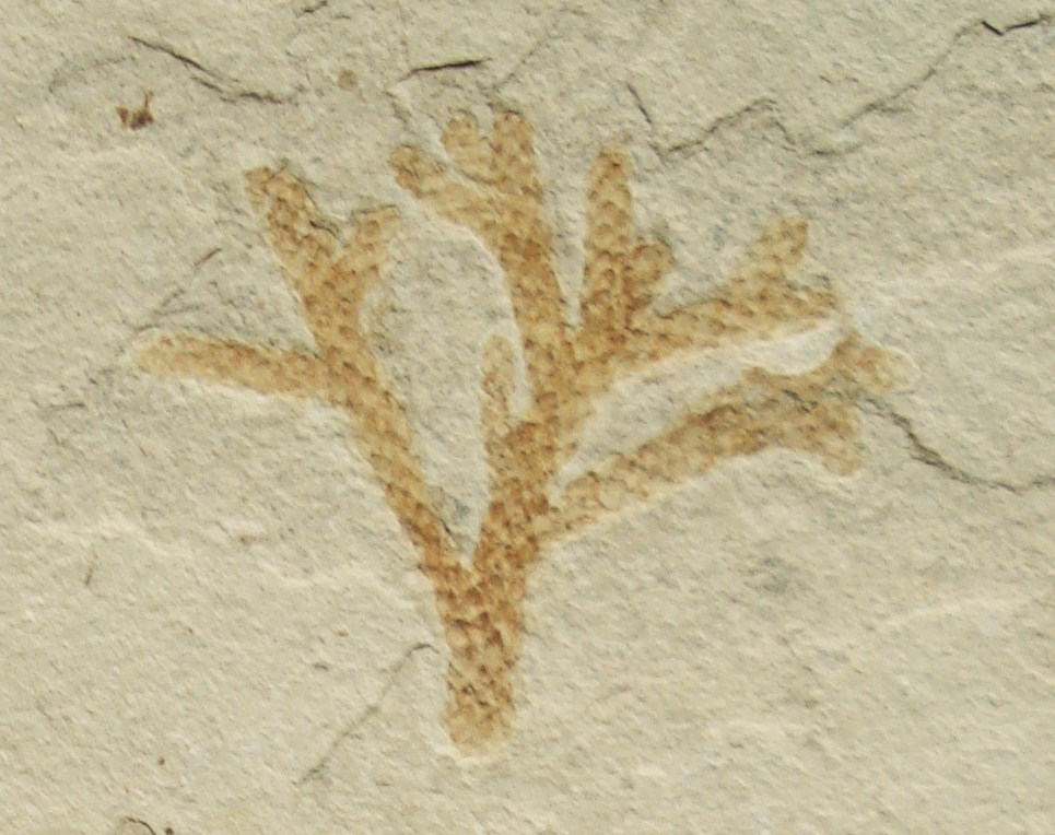 fossil of brachyphyllum